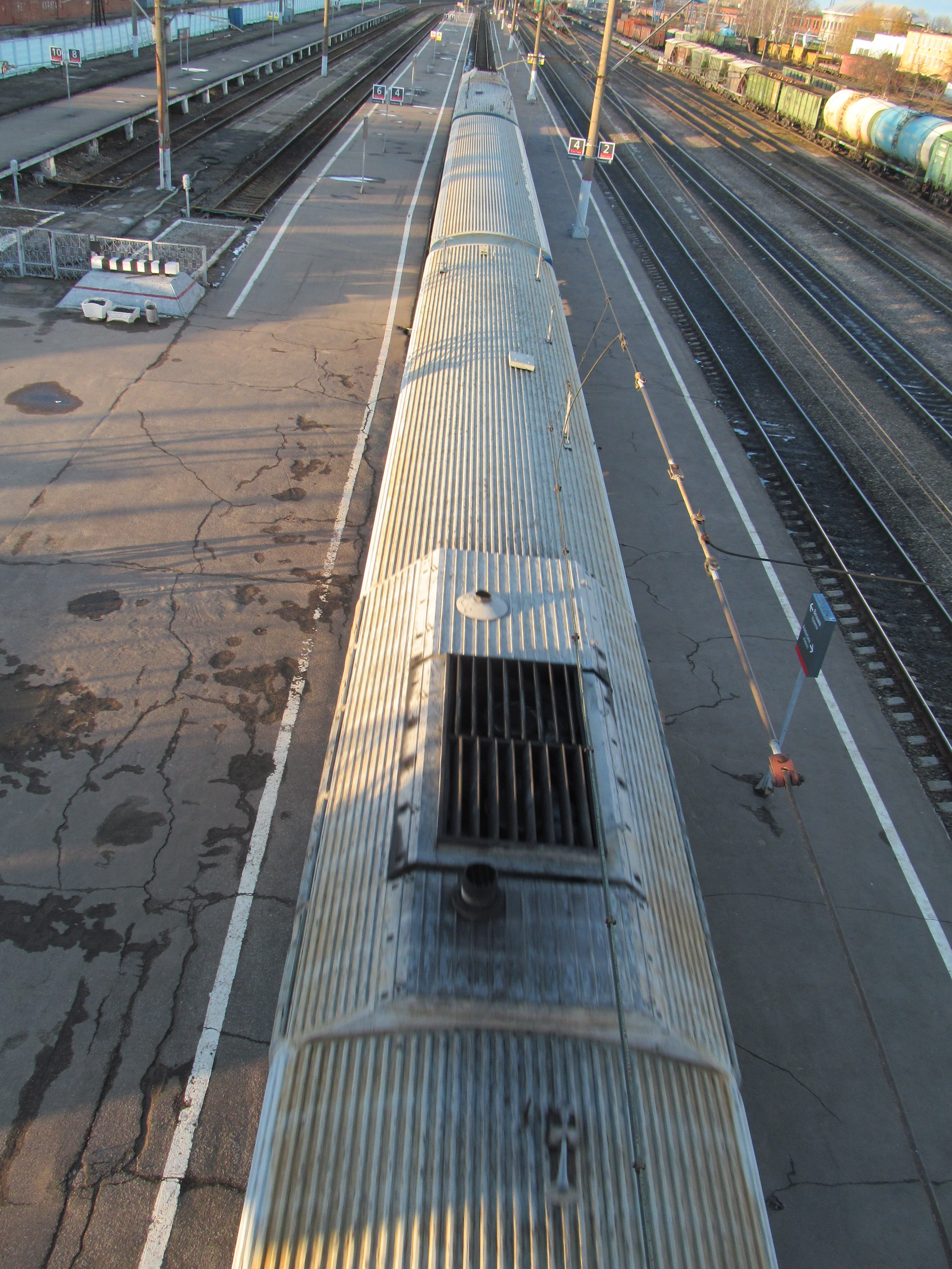 ACh2+APCh2+ACh2 DMU train (three-car formation) at Kaluga-1 station. View of the cars roofs